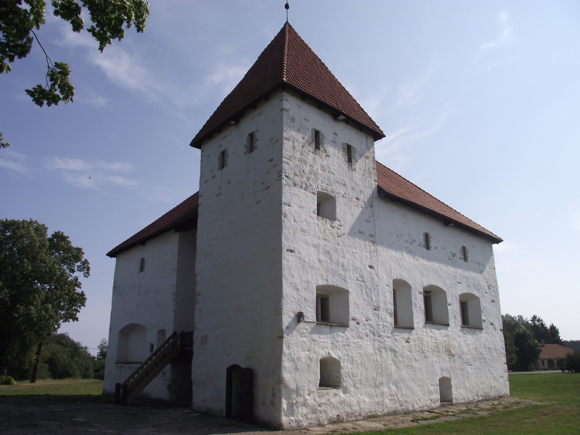 Purtse vassal castle.